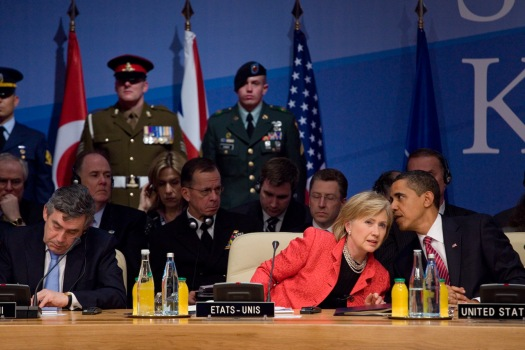 President Barack Obama confers with U.S.Secretary of State Hillary Rodham Clinton during the NATO summit in Strasbourg, France. British Prime Minister Gordon Brown is to Clinton's right while Chairman of the Joint Chiefs of Staff Michael Mullen is between Brown and Clinton.